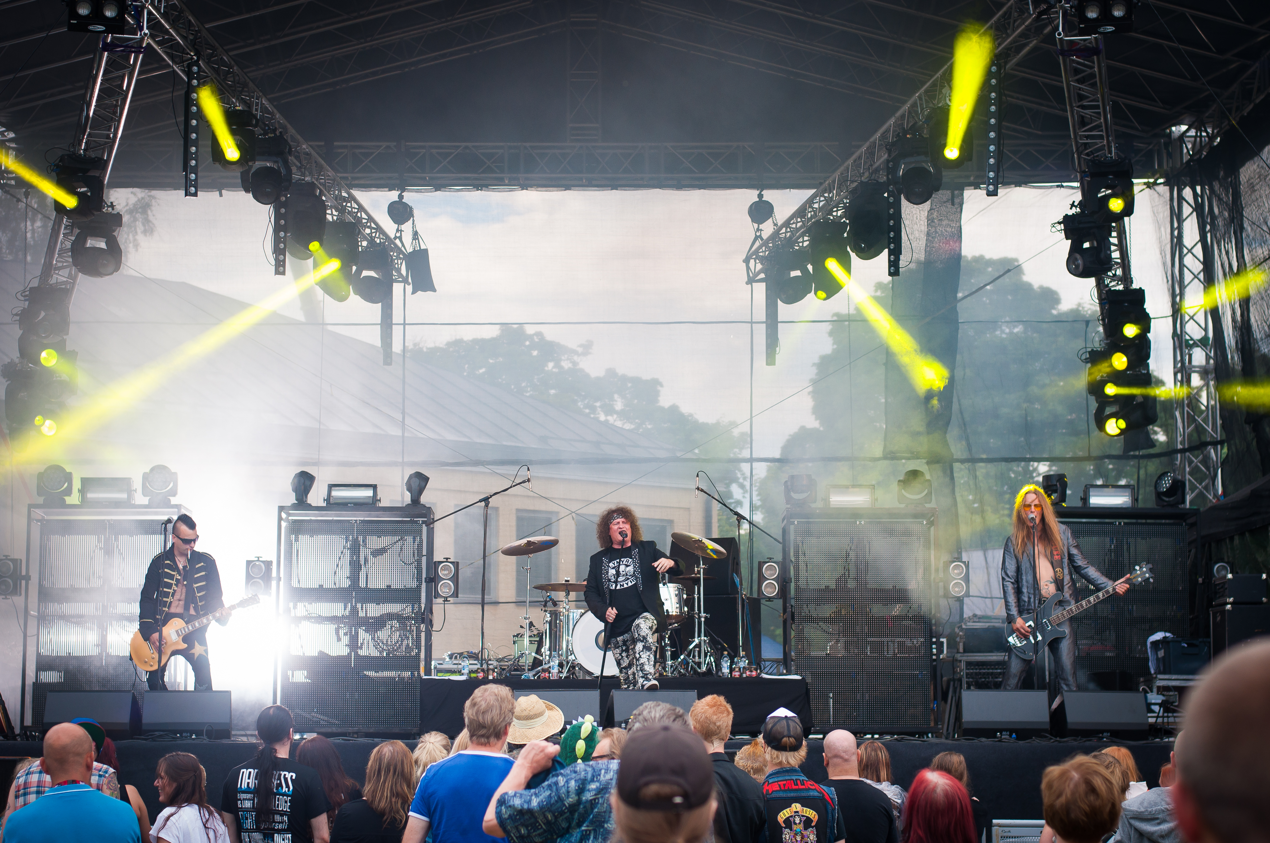 Finnish glam rock band Osmo's Cosmos performing at the 2014 Rakuuna Rock festival in Lappeenranta, Finland.